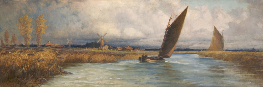 Osborn, Emily Mary; Sailing Barges; Stockport Heritage Services